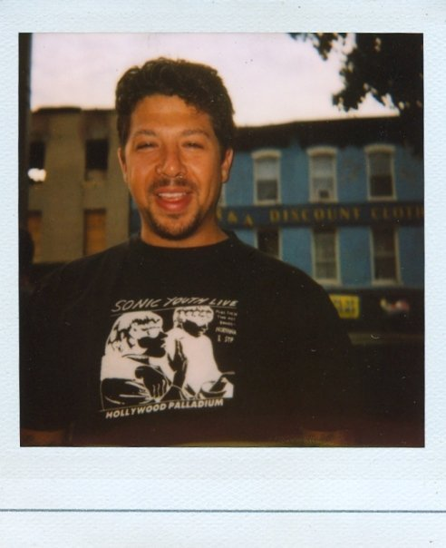 Cosmo Baker in Brooklyn,NY